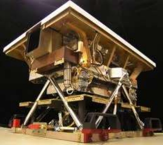 Visible and infrared mapping spectrometer (VIR) is the scientific instrument carried by Dawn spacecraft to measure the surface mineralogy of both Vesta and Ceres. Each picture the instrument takes records the light intensity at more than 400 wavelength ranges in every pixel, then the observations are compared with laboratory measurements of minerals, thus determining what minerals are on the surfaces of Vesta and Ceres. VIR is provided by the Italian Space Agency and the Italian National Institute for Astrophysics, and operated by the Italian Institute for Space Astrophysics and Planetology.